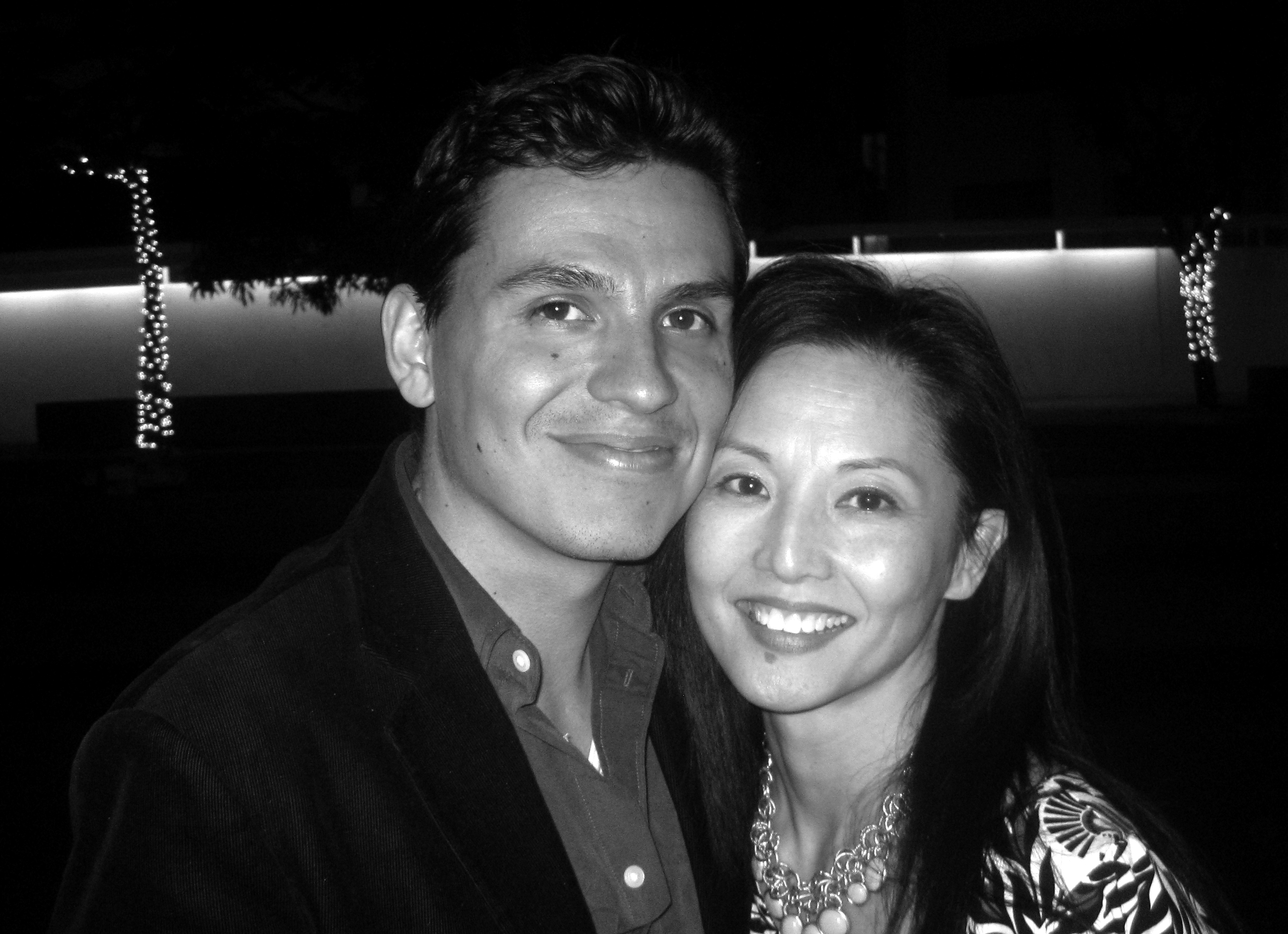 Andres Useche (singer, songwriter, film director, writer, activist) and Tamlyn Tomita (actress, singer) on April 5th, 2010